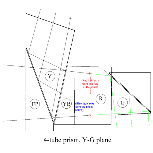 Figure is a ray diagram, showing colour splitting by a 4-tube prism assembly, but in the Y-G plane only